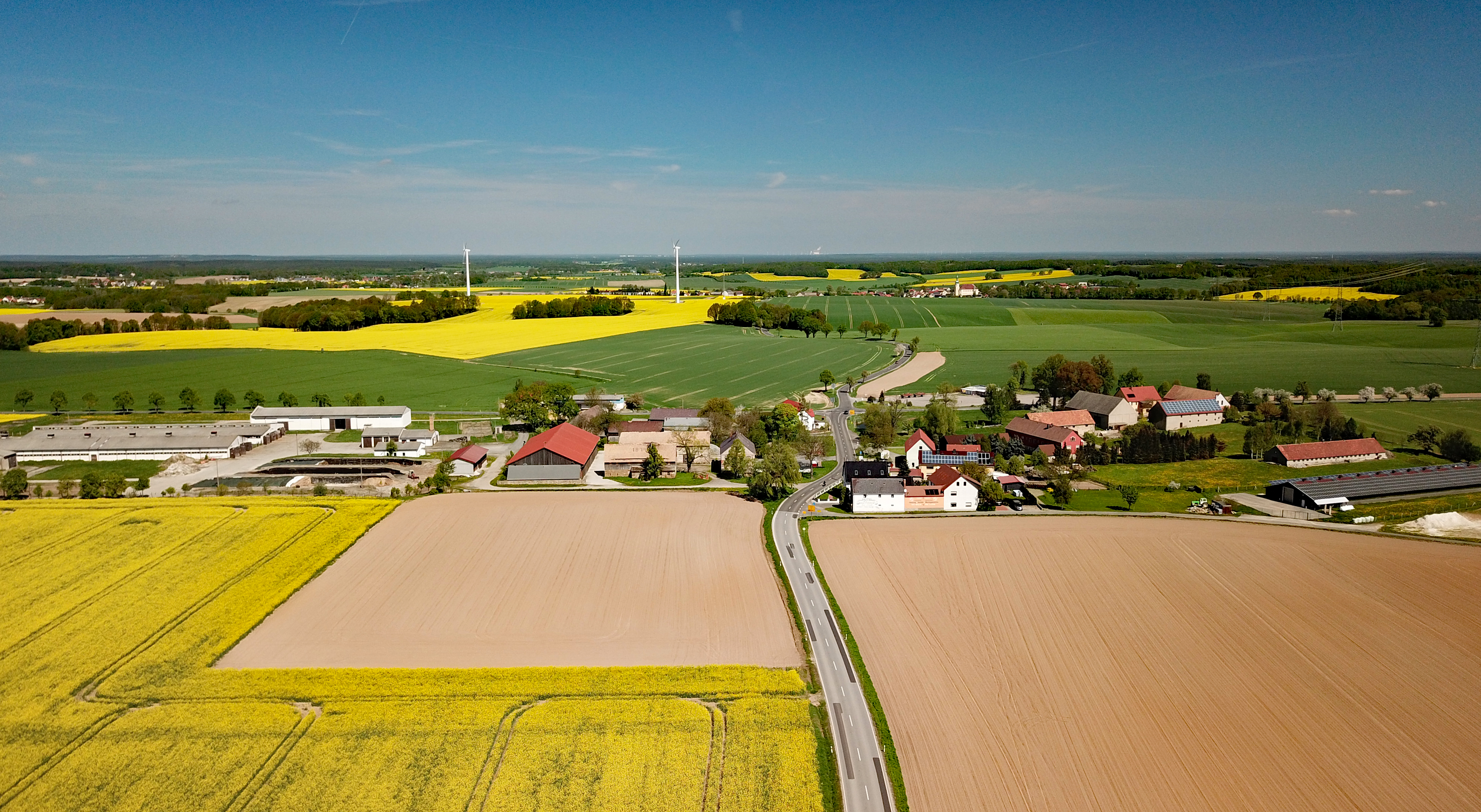 Siebitz (Panschwitz-Kuckau, Saxony, Germany) Hornjoserbsce: Powětrowy wobraz Zejic